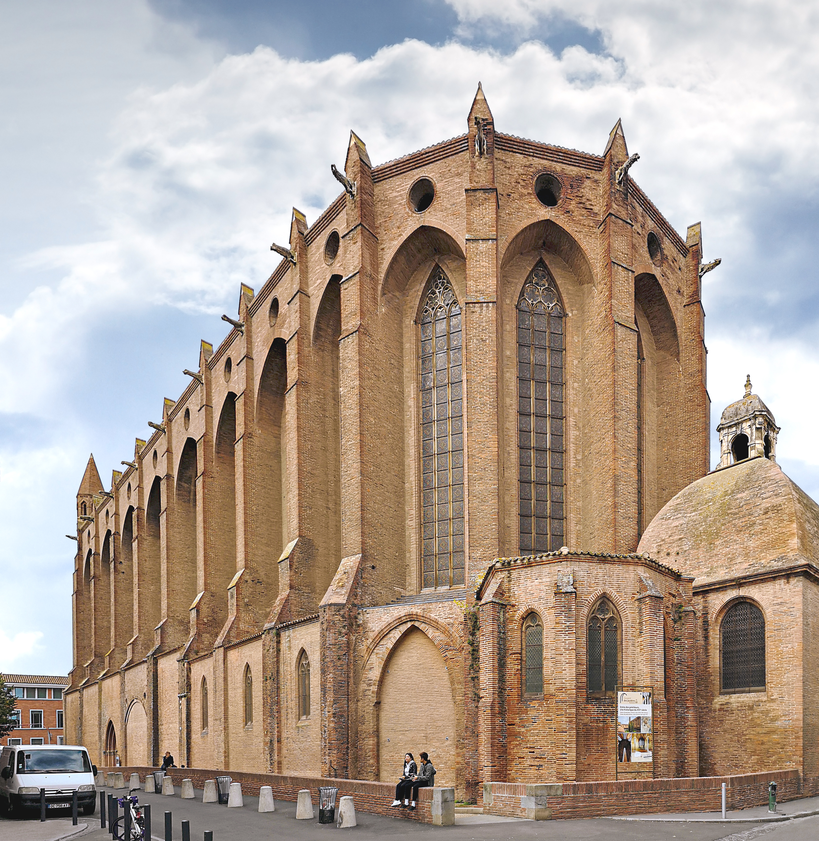 Church of the Jacobins, southeast exposure, nave and apse.